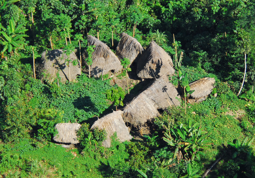 Uncontacted indigenous tribe in the brazilian state of Acre.